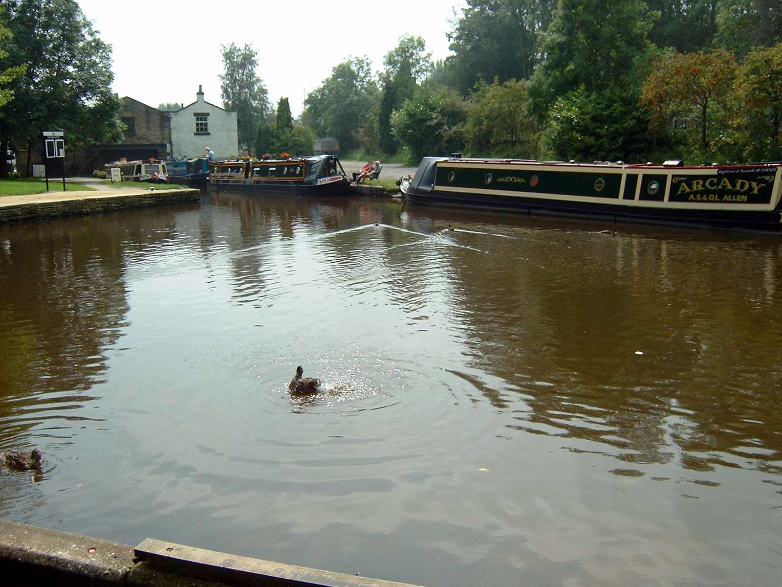 The canal basin in Whaley Bridge on a summer's day Whaley Bridge Canal basin. Aug 2004, Bill Lionheart Captioned As { }